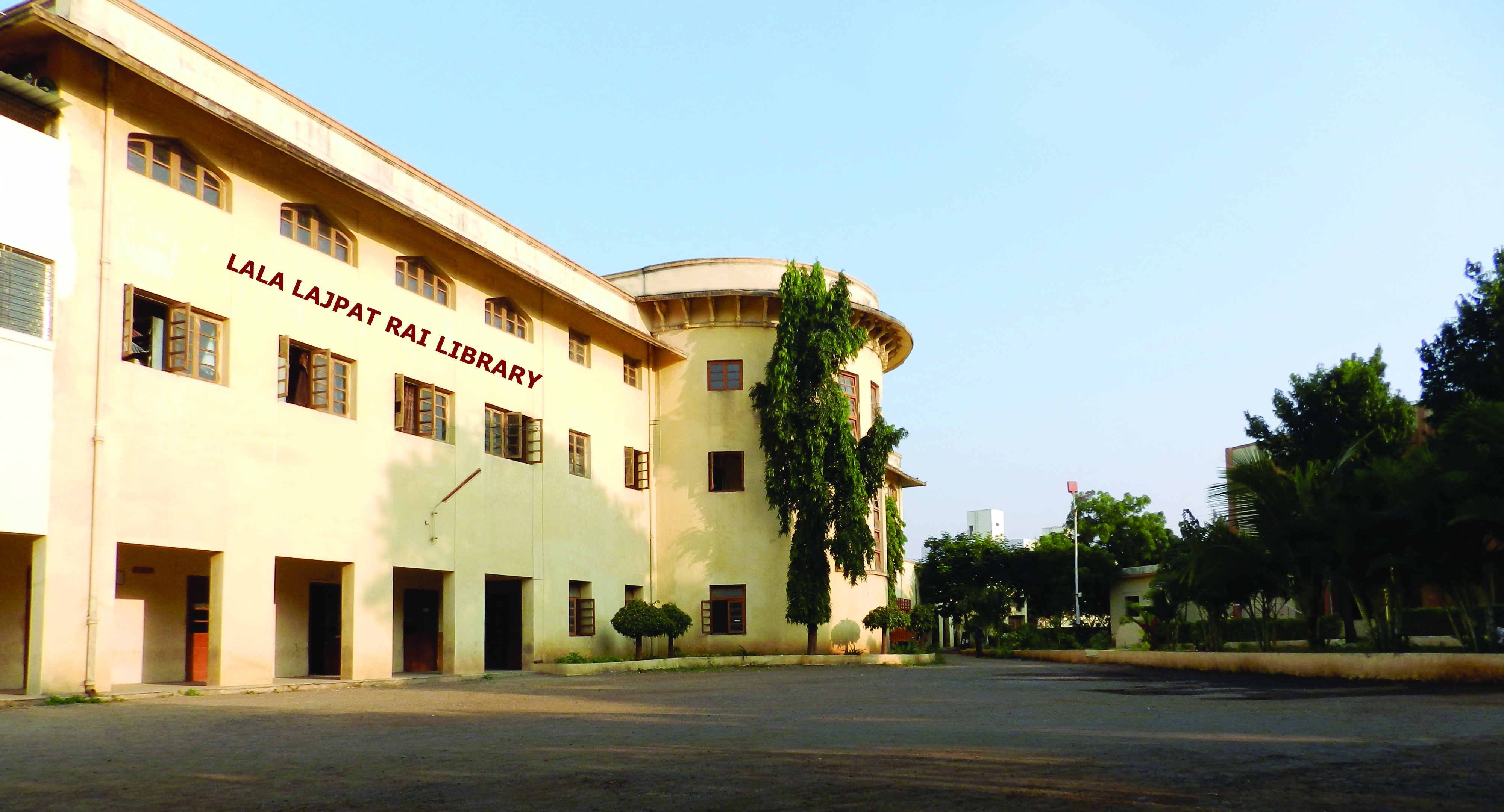 Dayanand College, Solapur